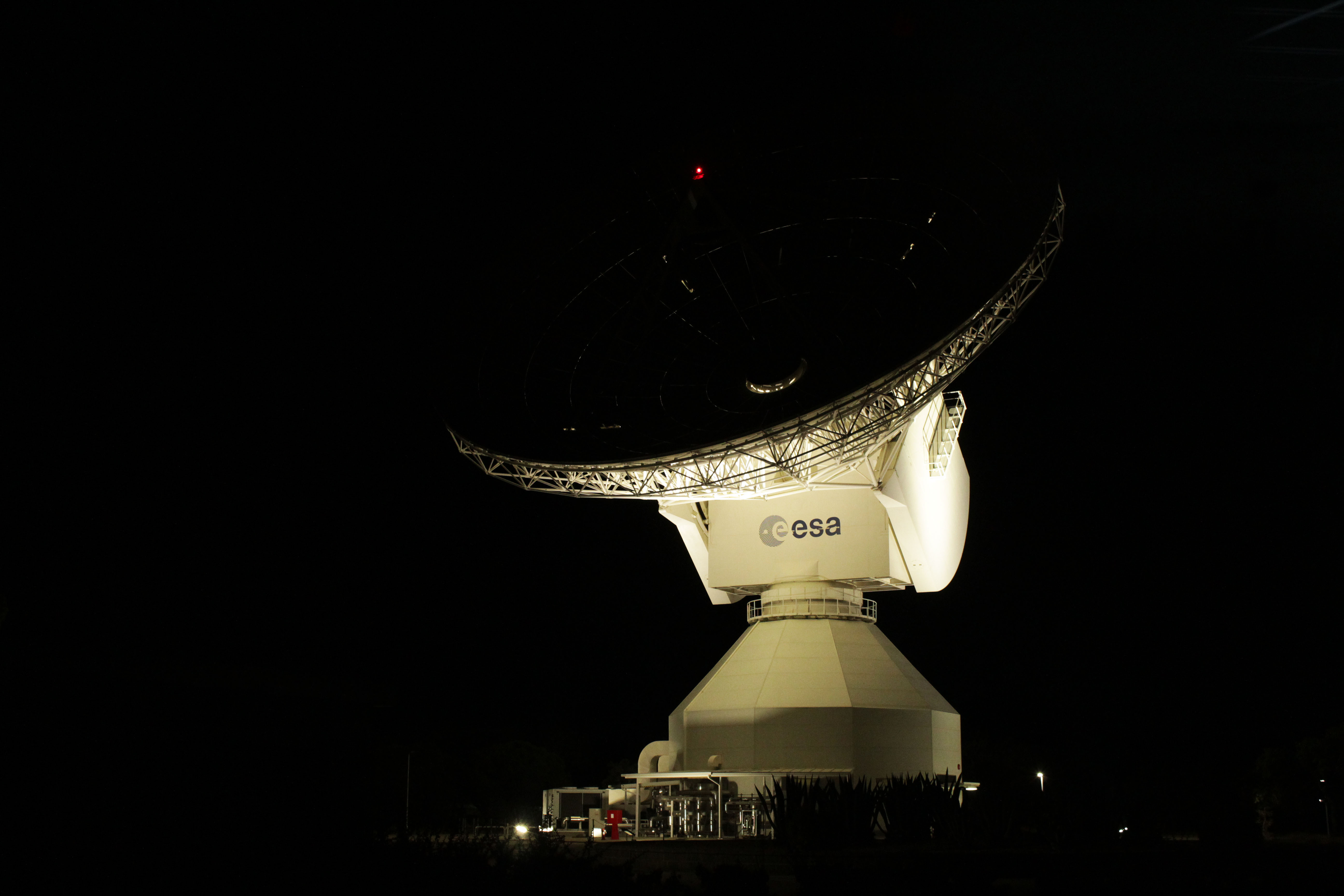 The European Space Agency's Deep Space Ground Station (Deep Space Antennae 2), located outside Robledo de Chavela, Spain.